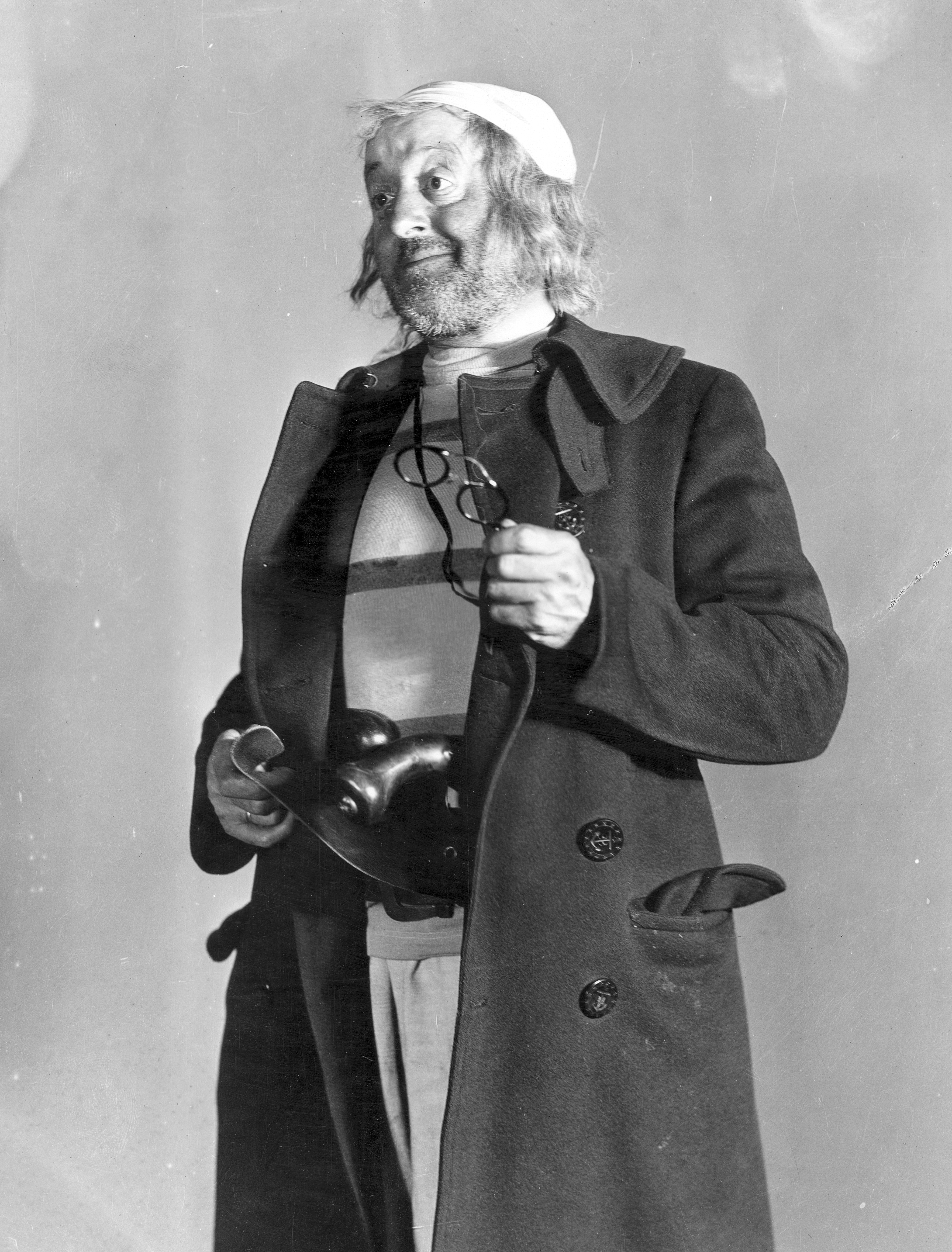 Edward Kipling as Smee in the film Peter Pan (1924). Parts of this film were shot along Orange County's coast. There are no known copyright restrictions on this image. All future uses of this photo should include the courtesy line, "Photo courtesy Orange County Archives." Comments are welcome after reading our Comment Policy. Photo collected during research for the Orange County Archives' 2011 exhibit, "On Location: Silent Film In Orange County."